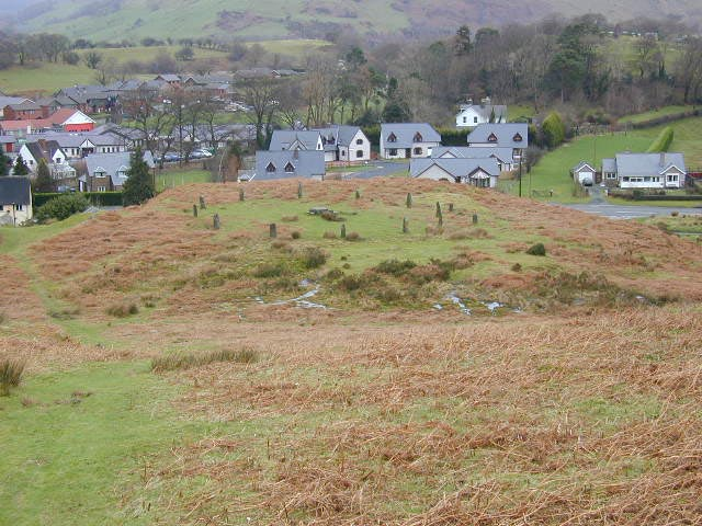 Gorsedd Circle east of Machynlleth. On the left as you enter the town, close to the golf course. Created for the Eisteddfod in 1937.